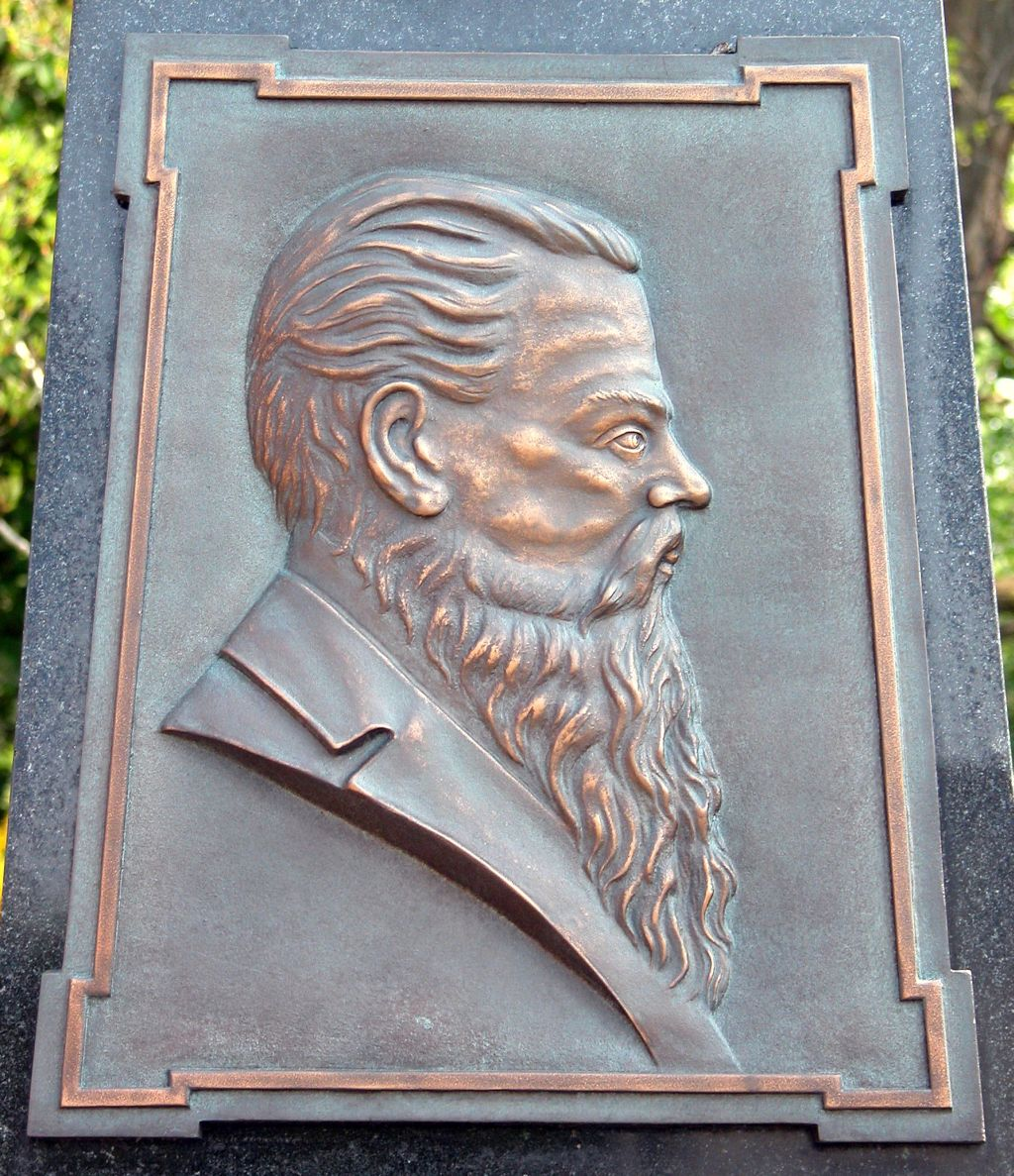 Brunswick, Germany: portrait of Friedrich Wilhelm Reuter.